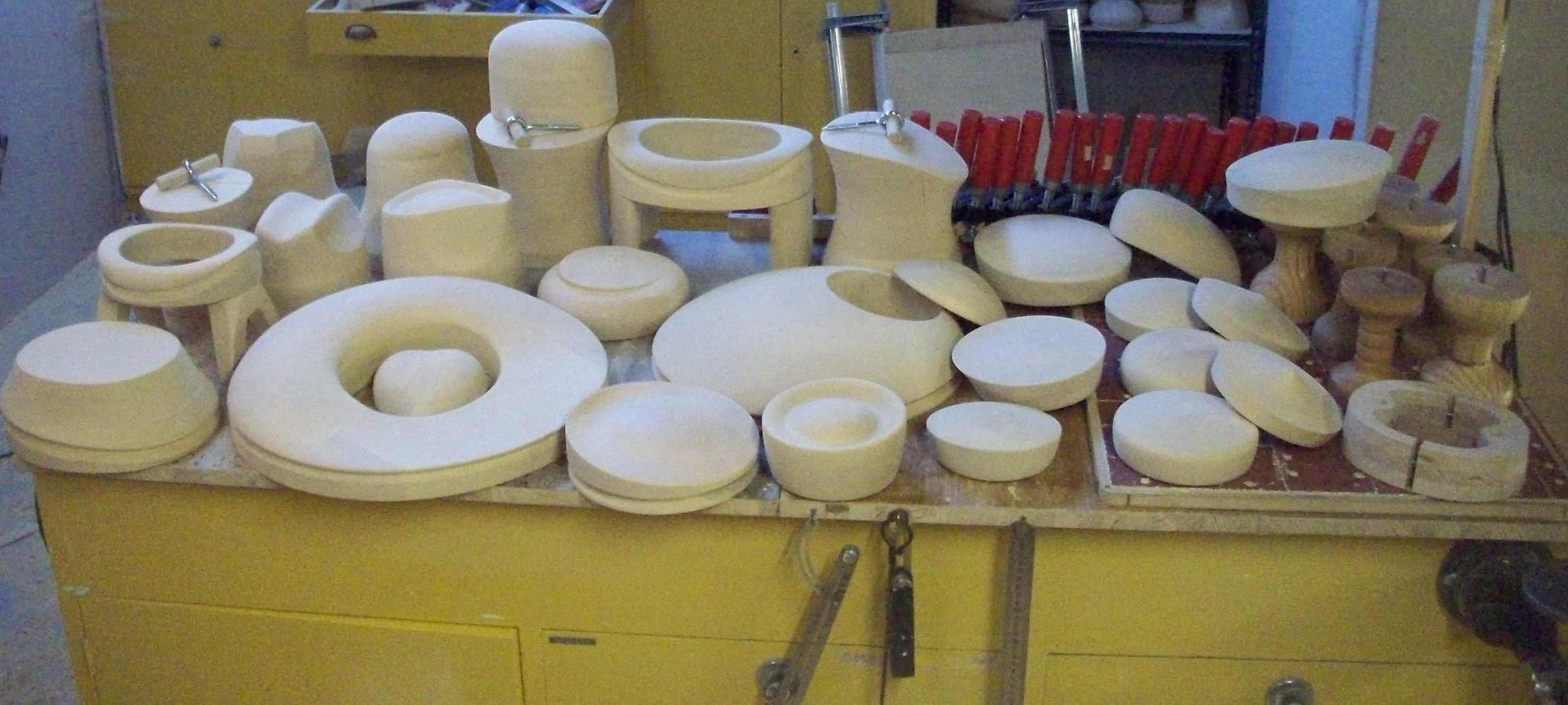 A selection of hat blocks in the workshop of Australia's 'Blocks by Design'